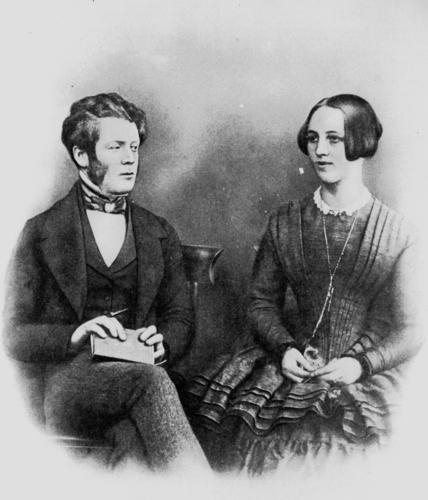 Photograph of David and Mary McConnel owners of Cressbrook